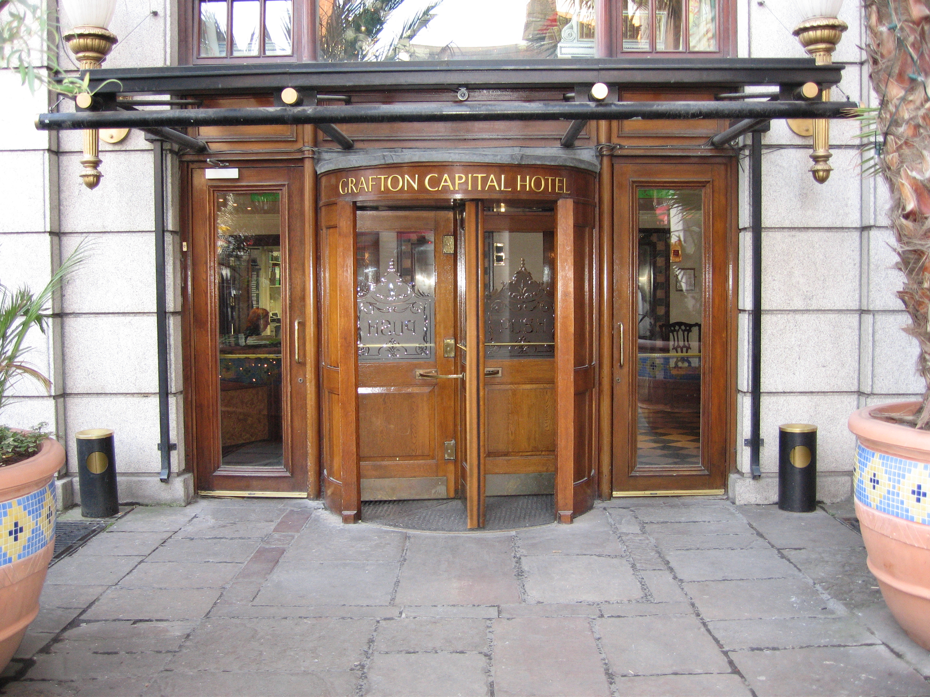 Revolving doors of Grafton Capital Hotel